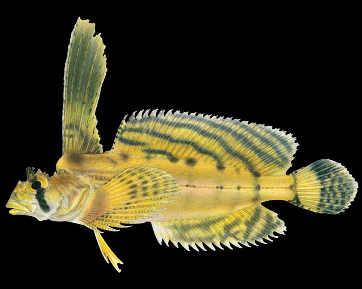 Sailfin sculpin, Nautichthys oculofasiatus image by Joseph R. Tomelleri